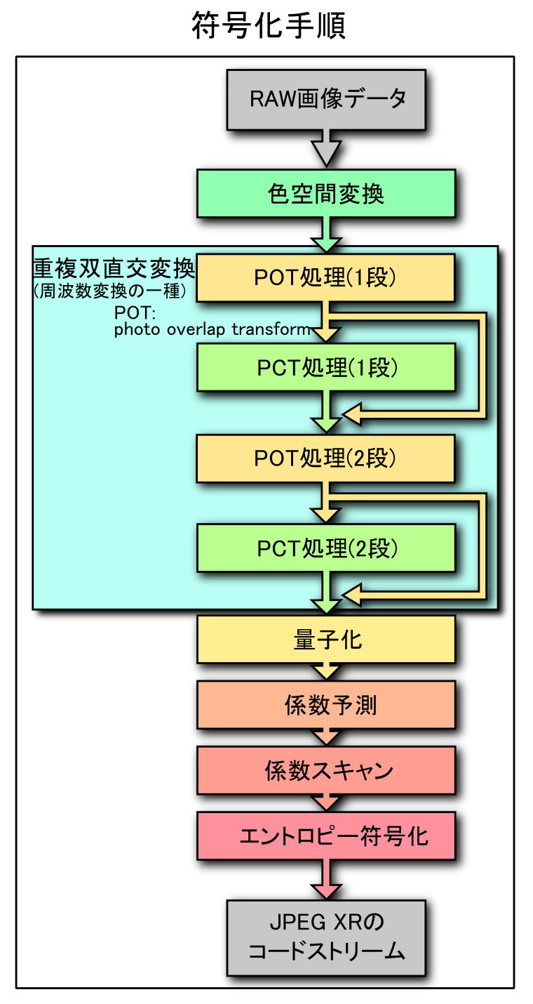 JPEG XR image coding block diagram.